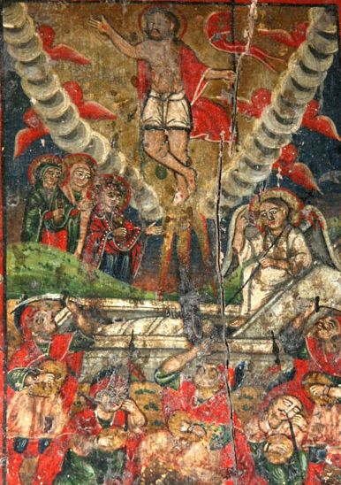 Resurrection of Jesus (coptic icon)